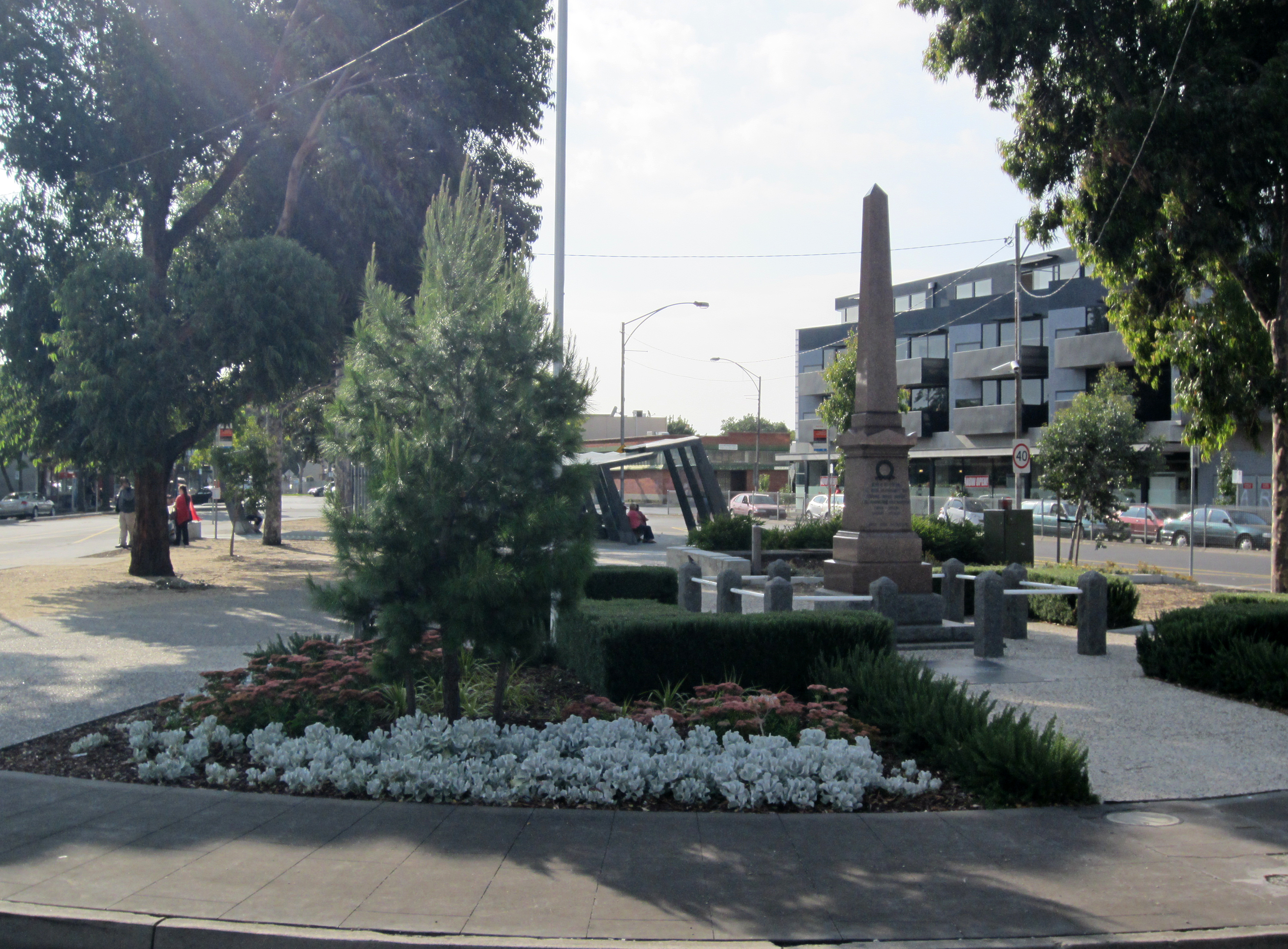 Newport Memorial and Bus Interchange, Mason St, Newport, Victoria